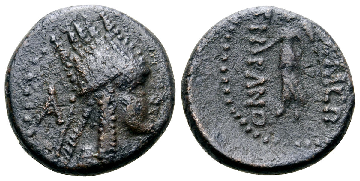 Tigranes III Æ15. Artaxata, circa 20-8 BC. Diademed and draped bust right, wearing tiara; A behind / BAΣΙΛEΩΣ TIΓPANO, Nike advancing left. Kovacs 172; AC 86. 3.94g, 15mm, 1h.